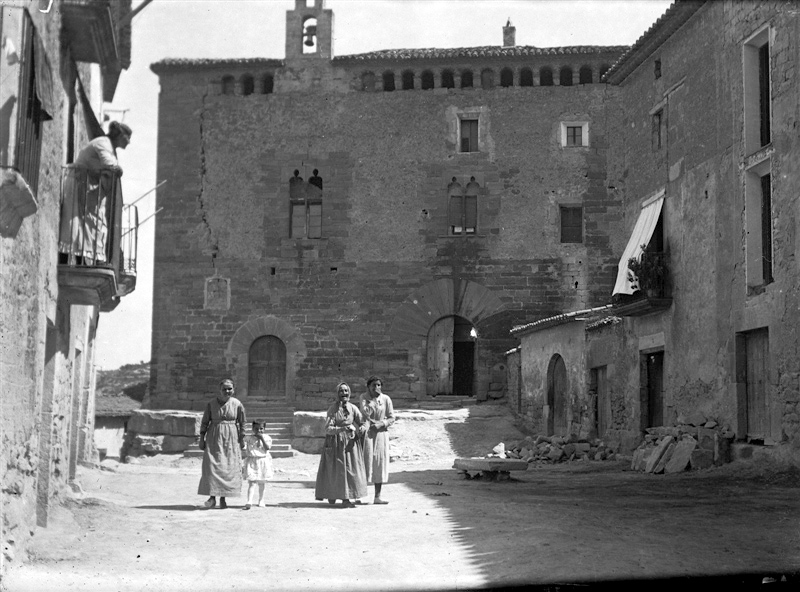 Còpia digital del negatiu original de vidre Llegat Dolors Moros, 2010 Museu d'Art Jaume Morera, Lleida. 2418